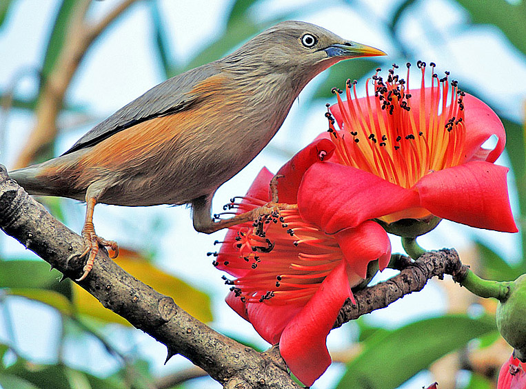 Grey Headed Starling (Sturnus malabaricus) on Red Slik Cotton Tree (Bombax ceiba)